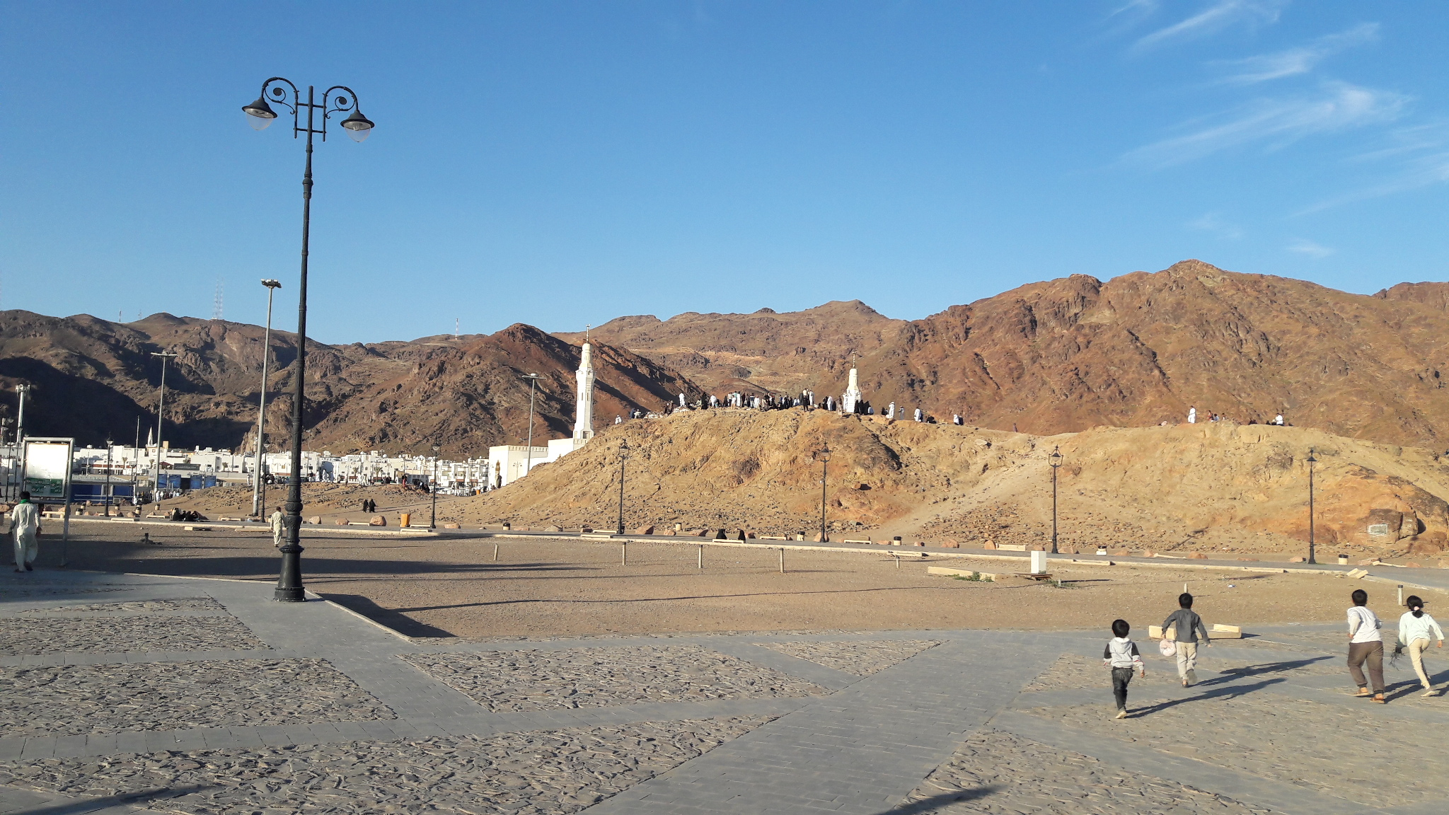 Mount Uhud